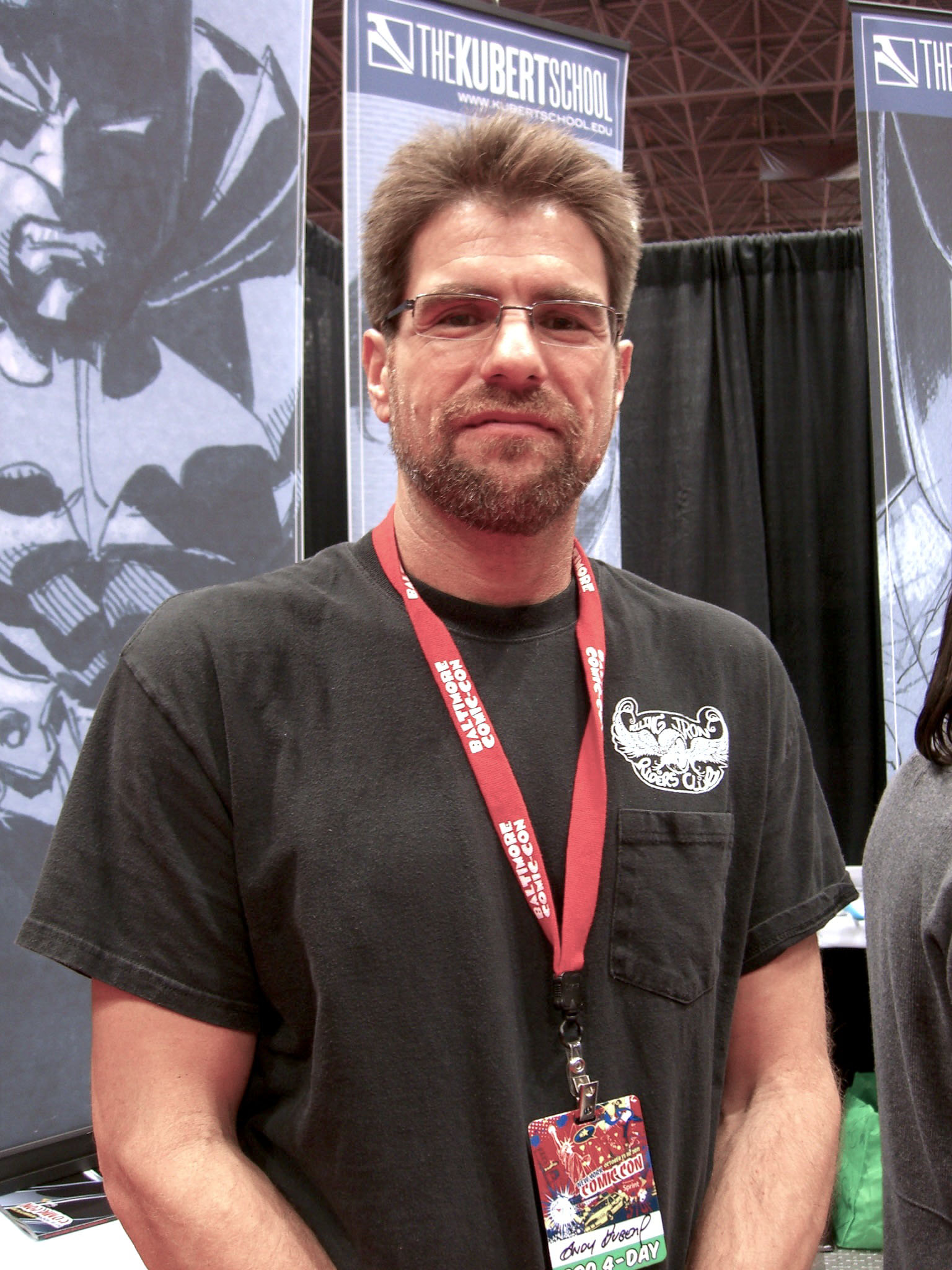 Comics creator Andy Kubert at the 2011 New York Comic Con, Friday, October 14, 2011. This photo was created by Luigi Novi. It is not in the public domain, and use of this file outside of the licensing terms is a copyright violation.